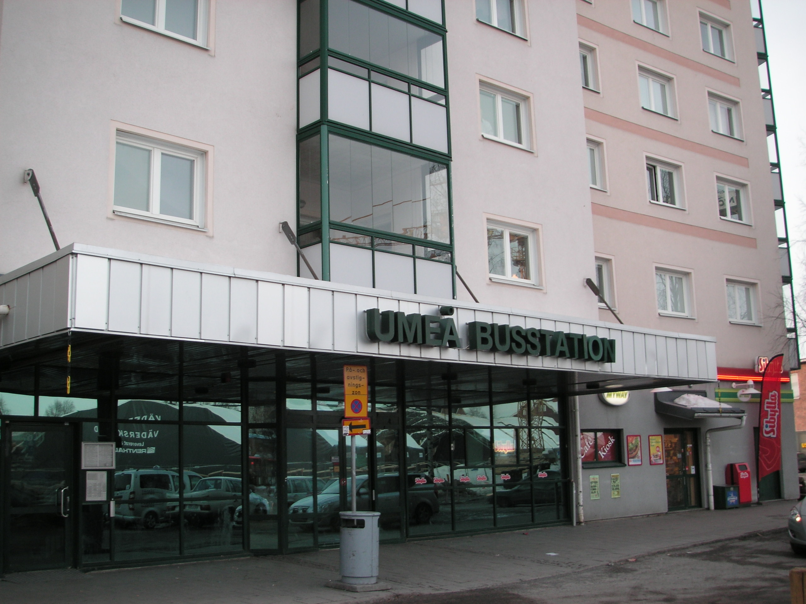 Umeå Bus Station, Sweden.